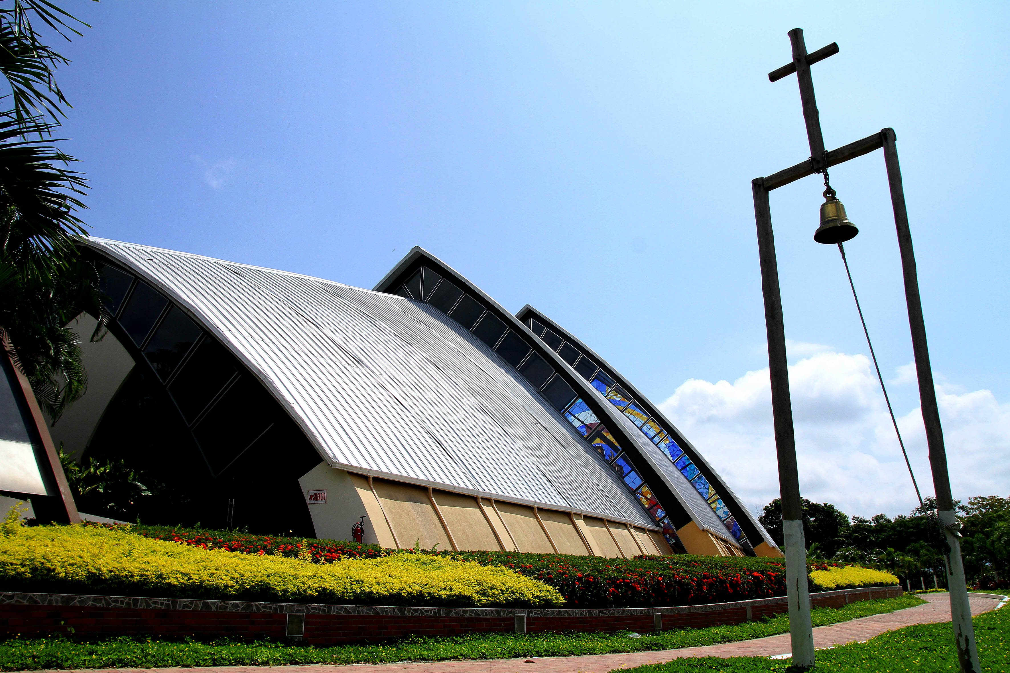 Guayaquil, 29 de may (Andes).-En los predios cercanos al santuario de la Divina Misericordia (foto) el Papa Francisco oficiará una misa campal para 11 mil fieles católicosFoto:César Muñoz/Andes